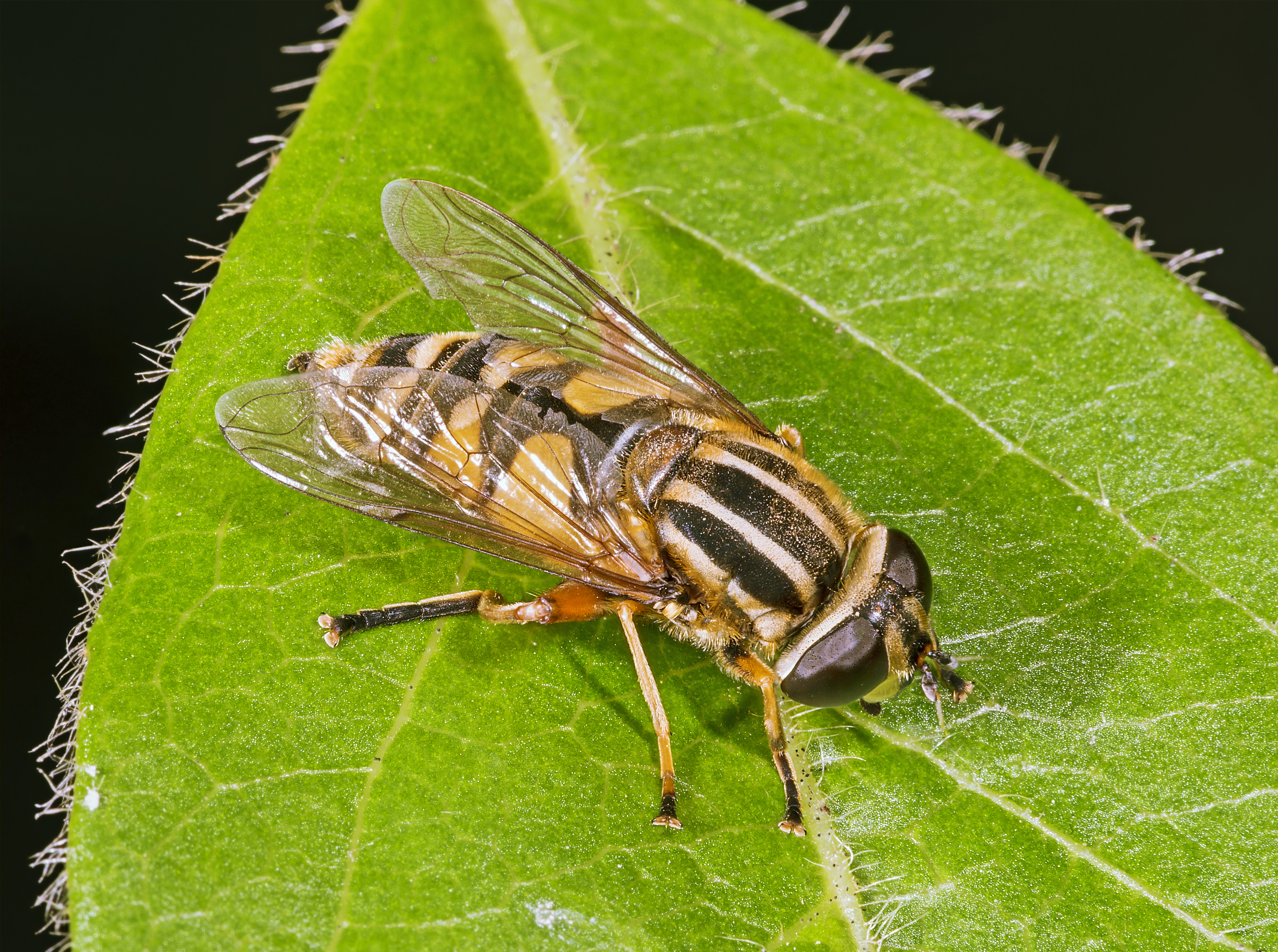 Helophilus pendulus in France